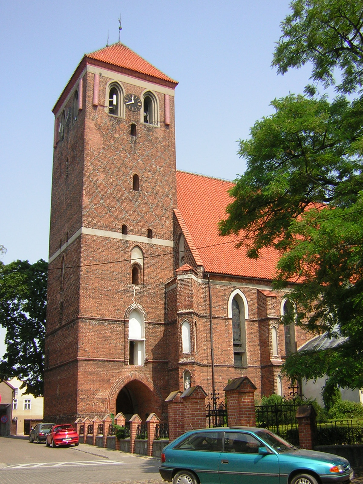 Fara w Lubawie Author: Marcin n MARCIN N 13:11, 11 July 2006 (UTC)